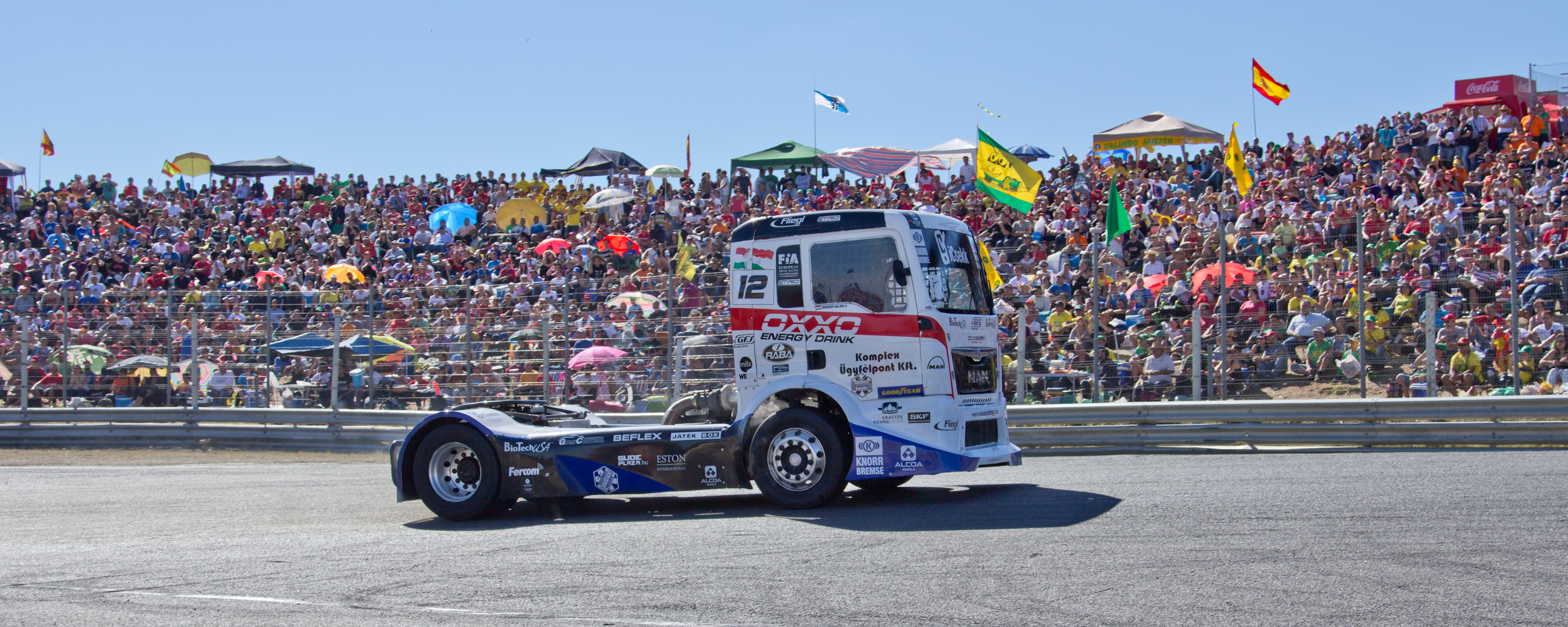 Truck pilot Benedek Major at the Spain Truck GP 2013.